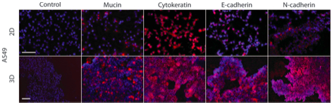 IHC reveals epithelial markers on A549 after culturing in 3D with the MLM as compared with 2D culturing